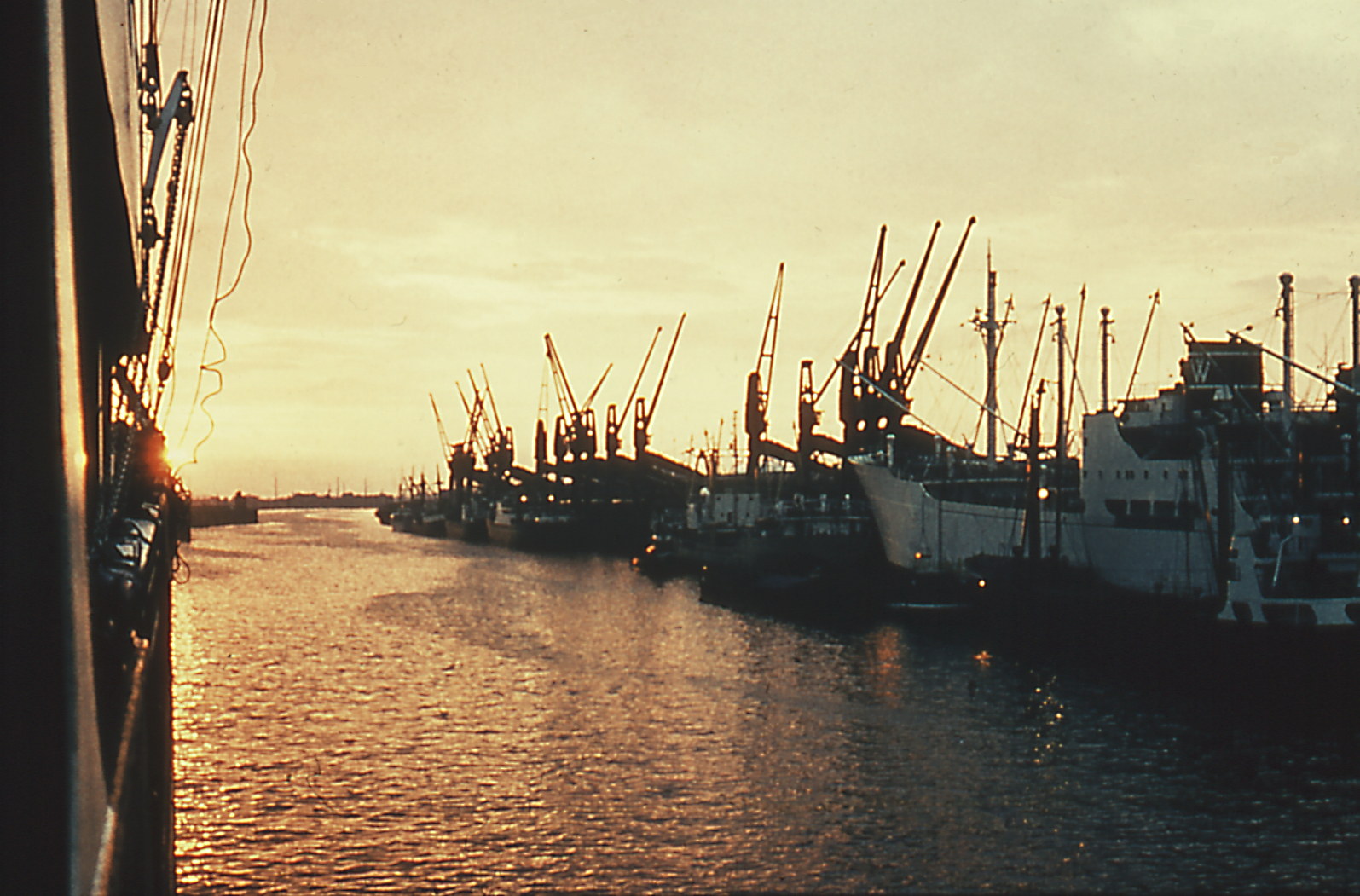 Evening in the international port of Bremen - 1959